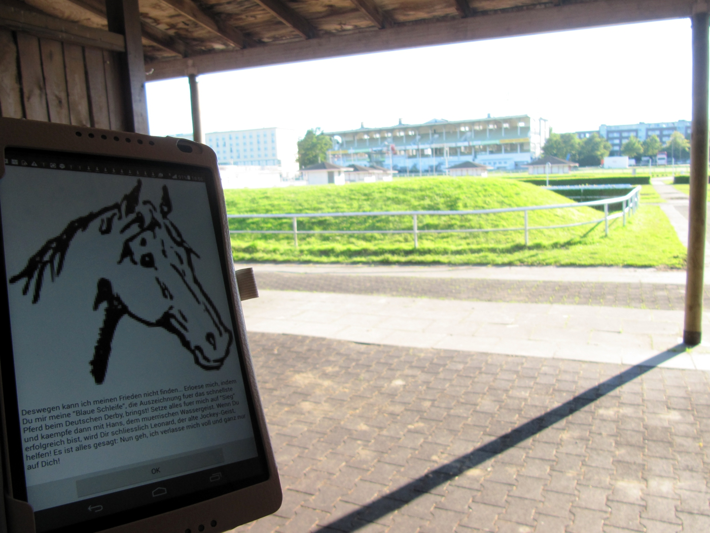 Wherigo-Cartridge_GC45K1D_vor_Ort_1